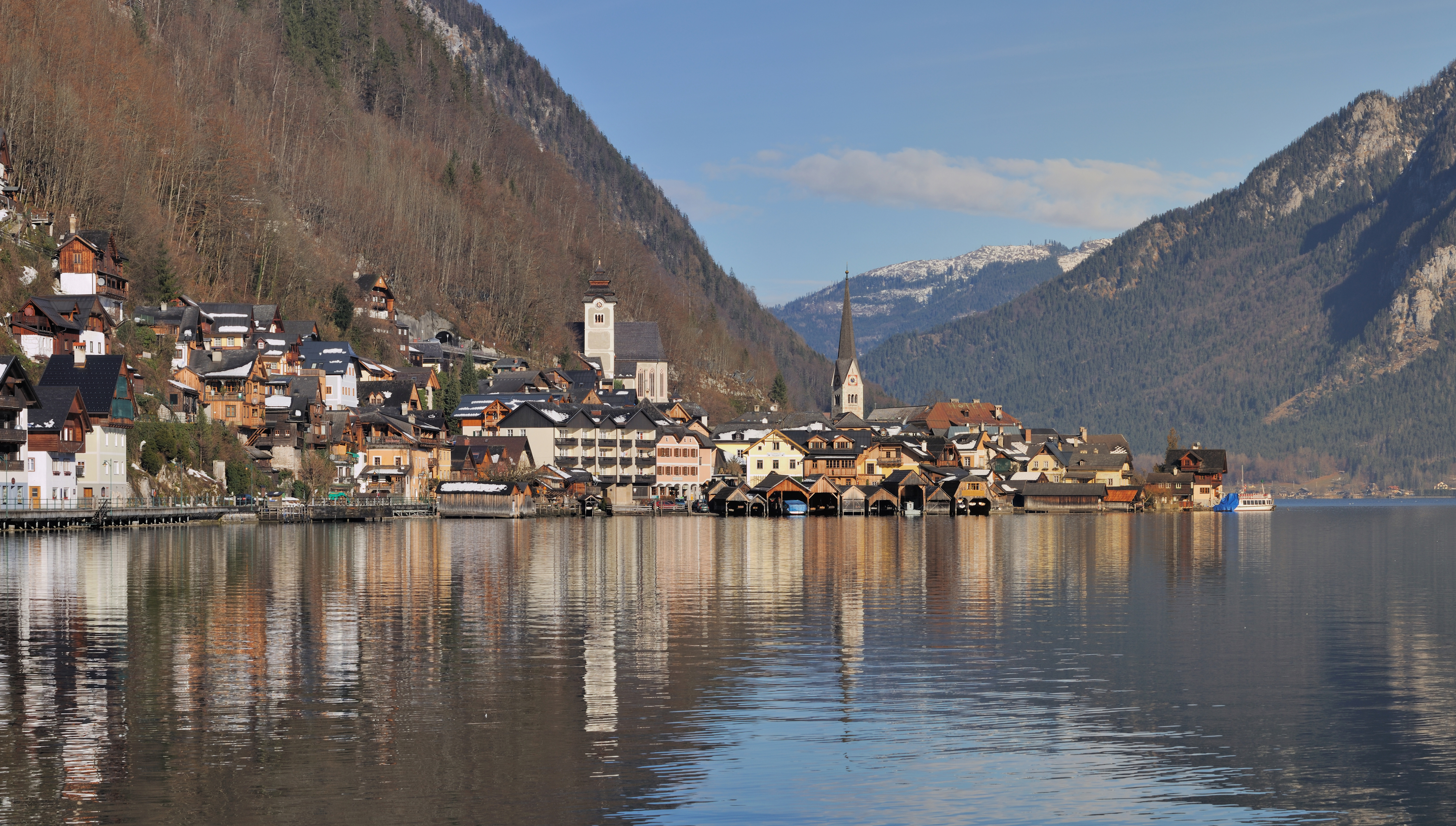 Hallstatt (general view from south)